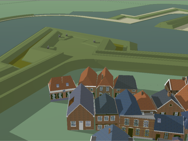 Ossenkop, Bredevoort reconstruction